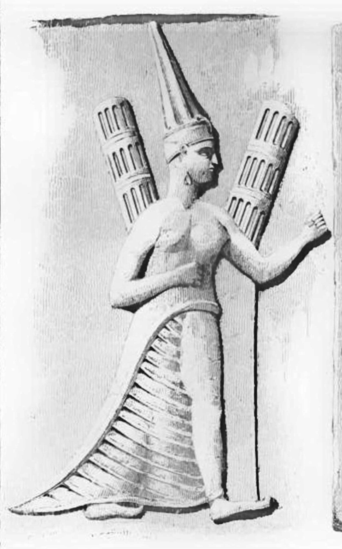 Detail of a relief from Yazilikaya sanctuary near Hattousa (Boǧazkale), capital of the Hittites depicting the goddess of love and war, Shaushka.[1]